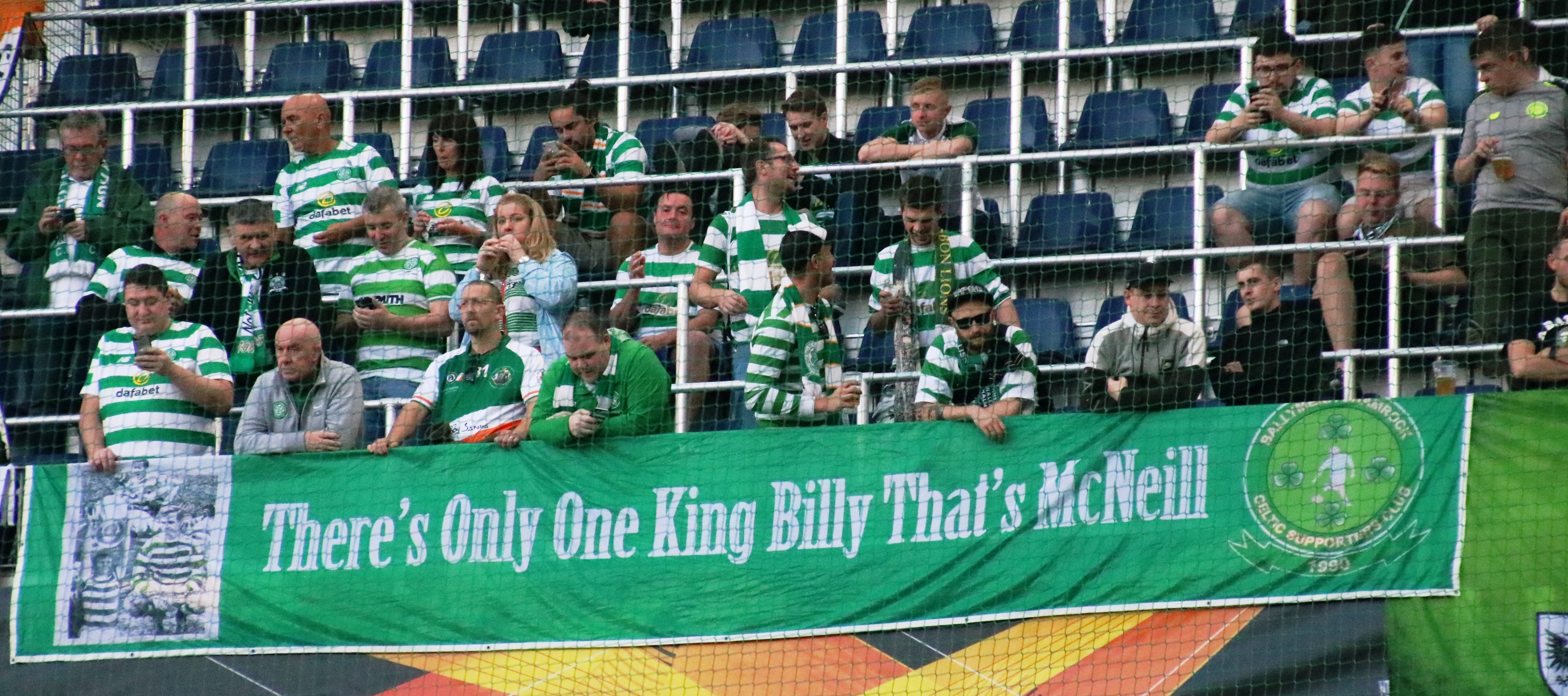 UEFA Euroleague group stage 2nd Round